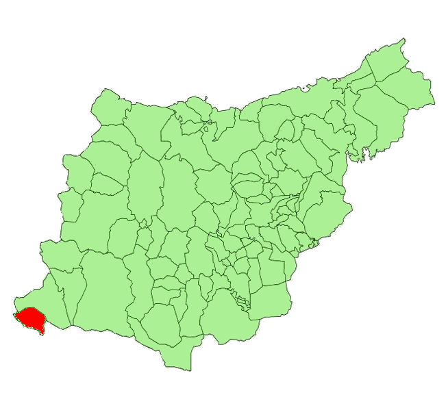 Leintz-Gatzaga municipality in the province of Guipuzcoa